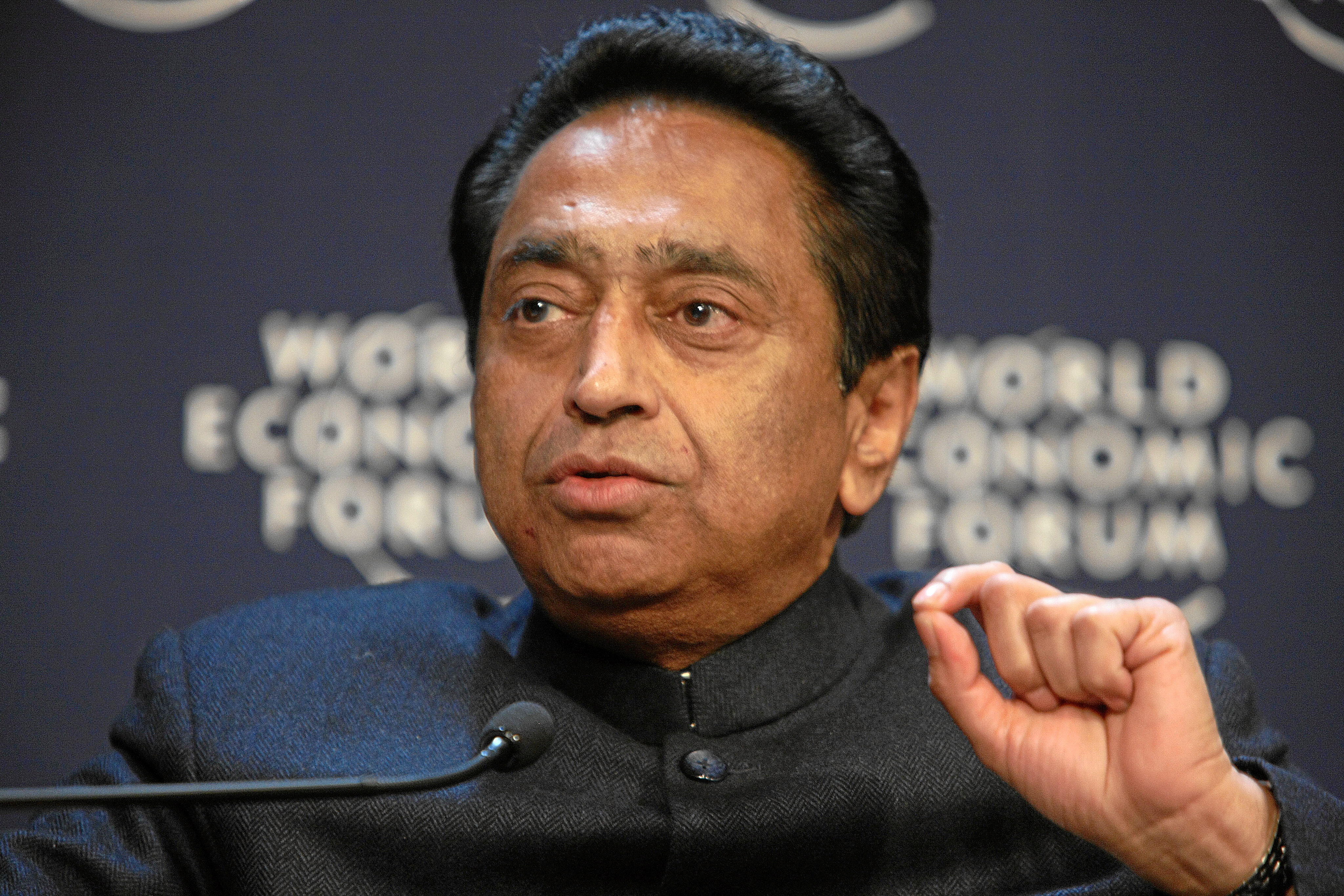 DAVOS/SWITZERLAND, 26JAN08 - Kamal Nath, Minister of Commerce and Industry of India makes a point during the session 'Threats to the Global Trading System' at the Annual Meeting 2008 of the World Economic Forum in Davos, Switzerland, January 26, 2008.